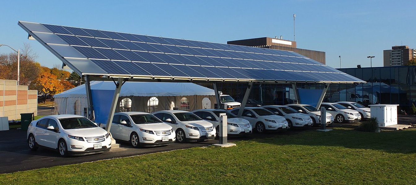 Baka Mobile - Toronto, Canada - North America biggest commercial charging stations Giulio Barbieri S.p.A and Renewz Sustainable Solutions Inc.